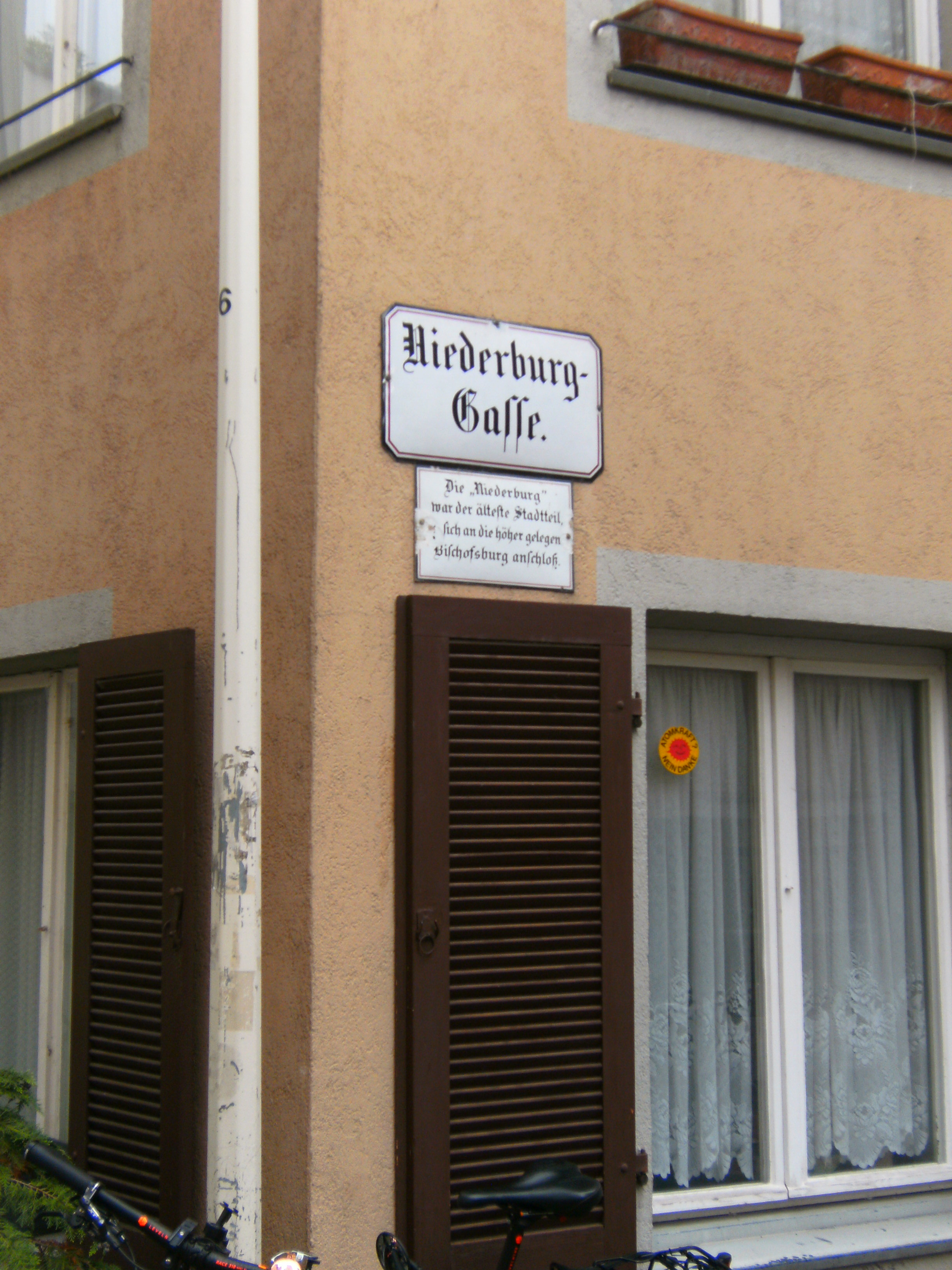 Niederburg (Konstanz), Germany: street sign Niederburg-Gasse.